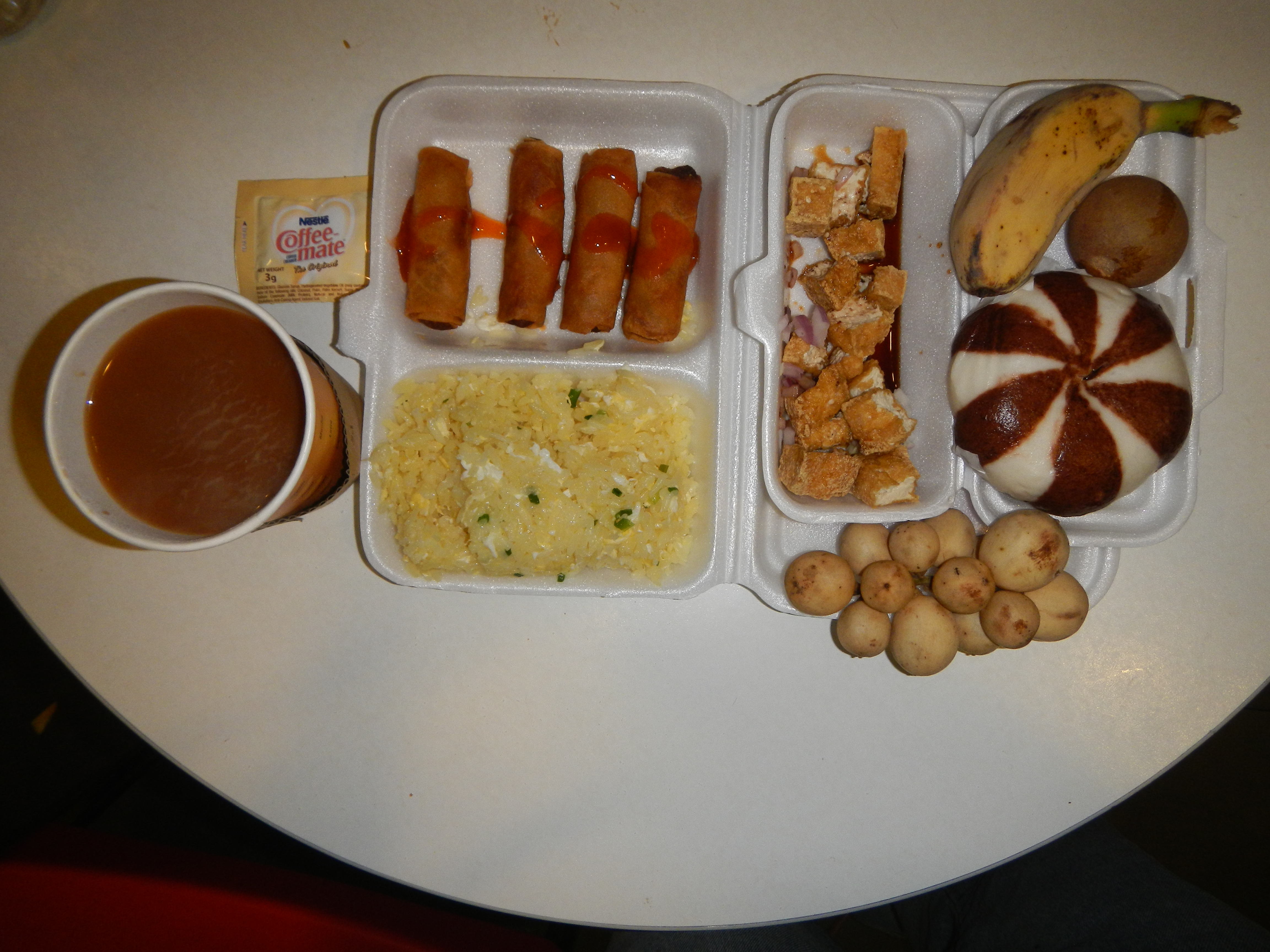 Chow King products, fried rice, lumpia, tofu choco pao, with Coffee.